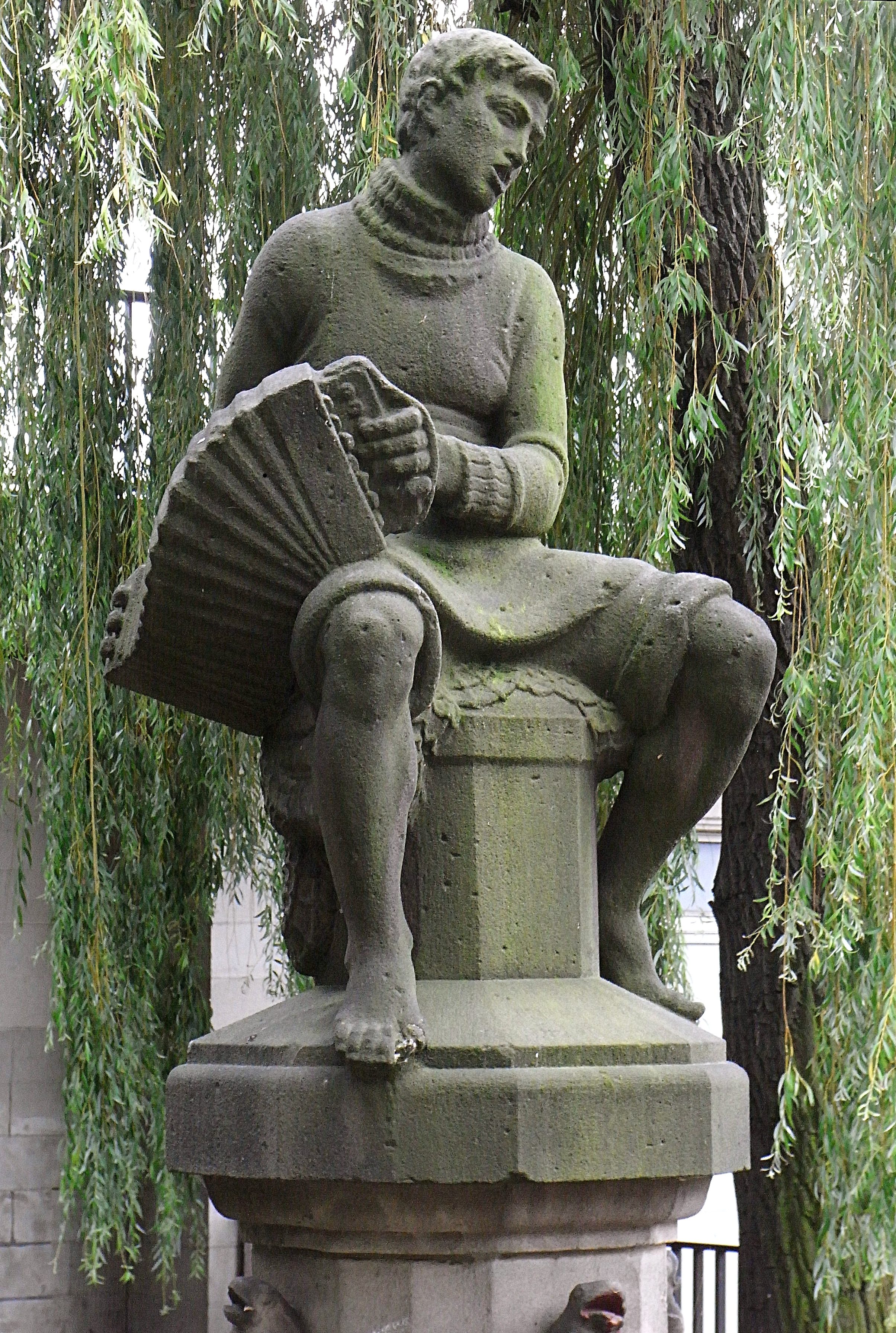 Hermann Hosaeus, sailor fountain (1914), sandstone - D-10555 Berlin-Hansaviertel, at the southeastern shore of the Spree, besides Hansabrücke in northeastern direction, seen from northeast